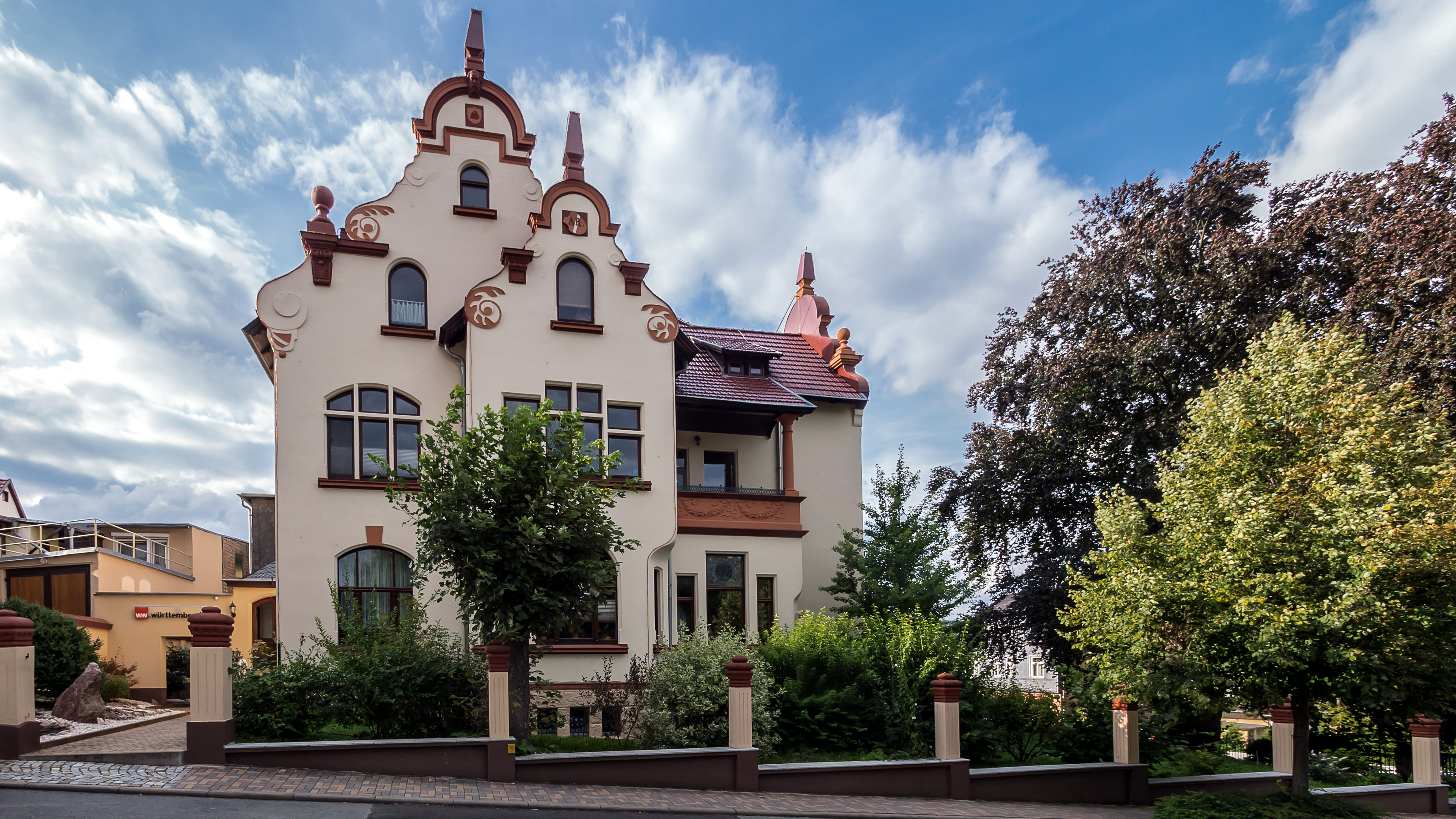 Königsee Lindenstraße 9